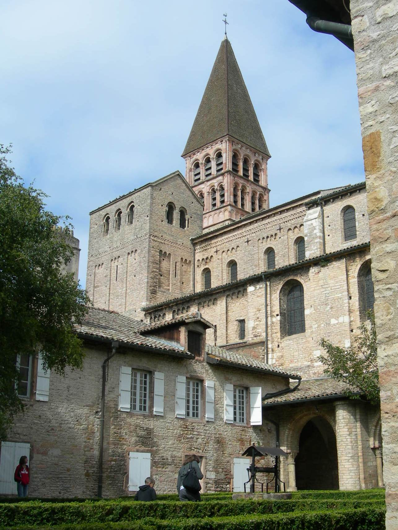 Tournus, from the courtyard.